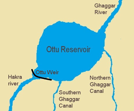 Ottu reservoir, Sirsa district, Haryana, India. This is a reservoir on the Ghaggar-Hakra river. It was formerly called Dhanur lake.